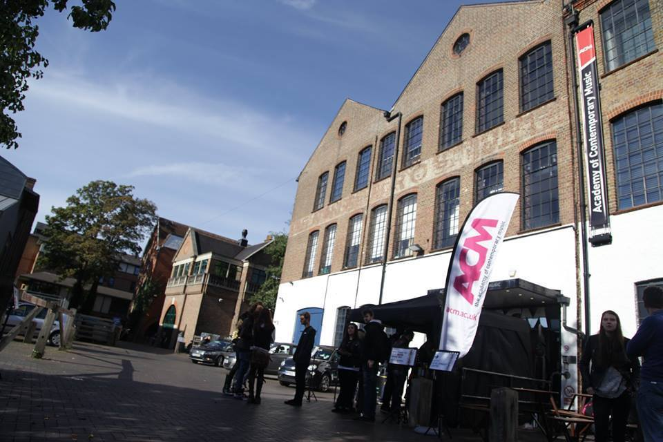 A picture of the Academy of Contemporary Music Rodboro campus.